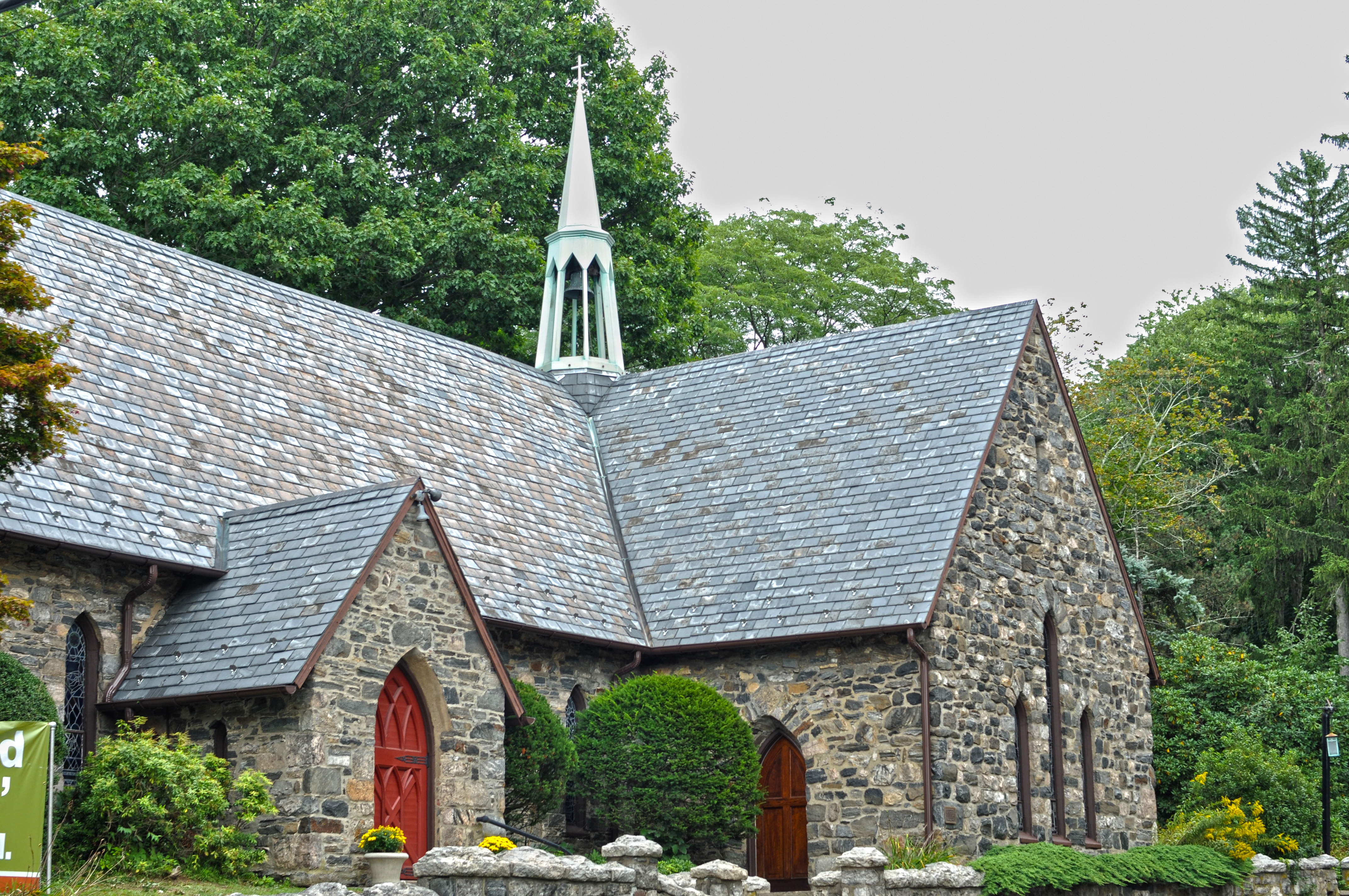 An image of the All Saints' Episcopal Church.